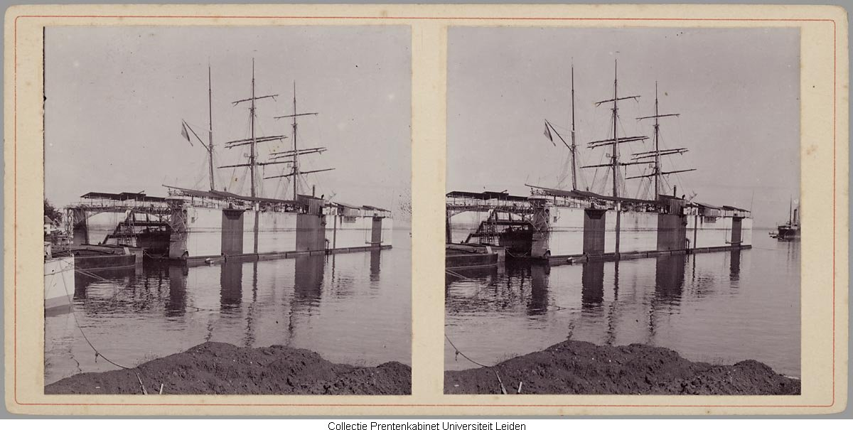 Tanjung Priok Dock of 4,000 tons 1900-1910. With barque John Davie. The bow of the Cycloop is also in view.